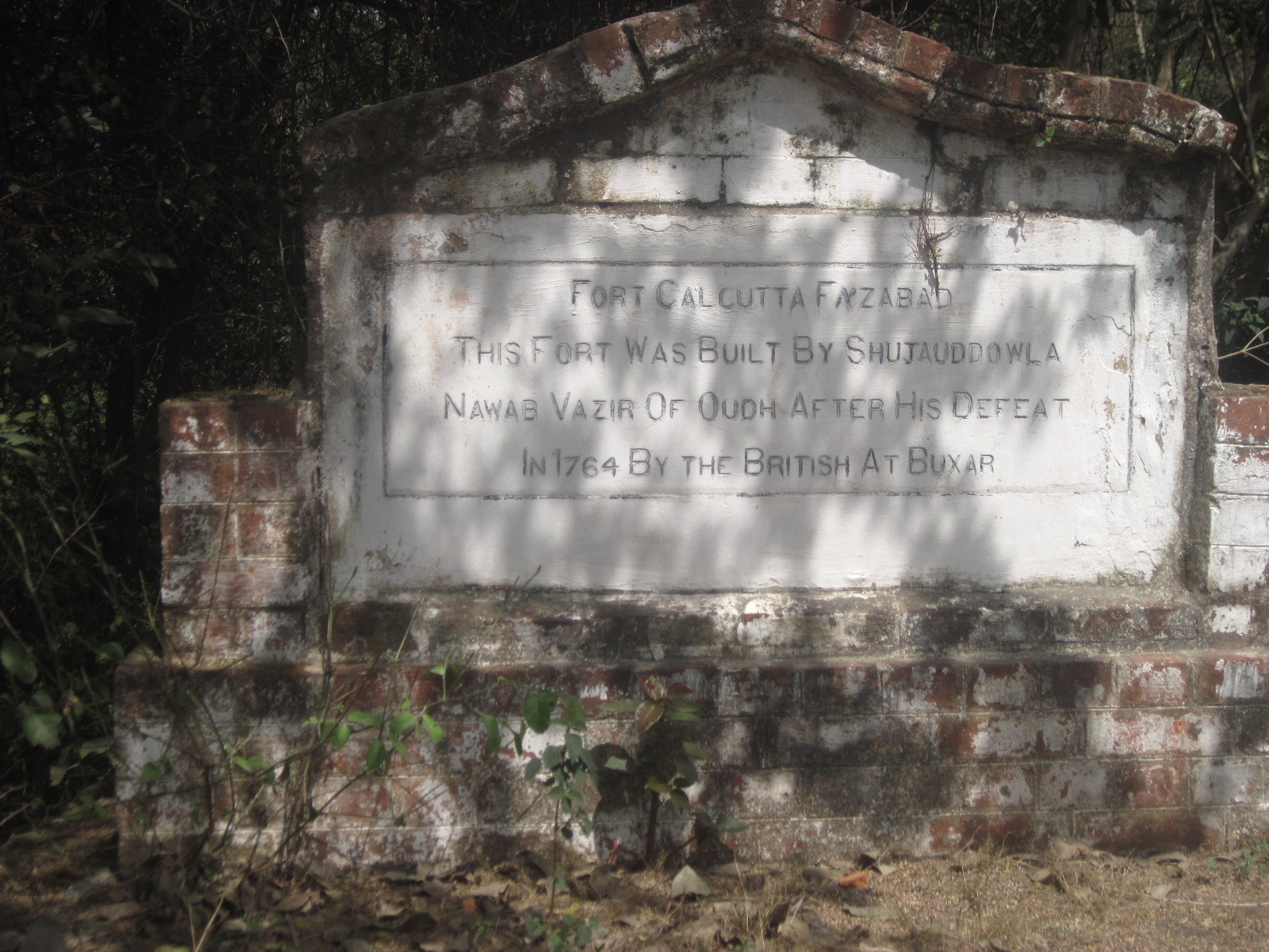 Edict of Fort Calcutta, Faizabad, India. Built by Shuja ud Dowlah, the ruler of province of Avad, after his defeat in Battle of Buxar in 1764.